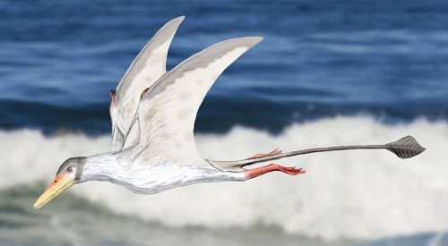 Preondactylus